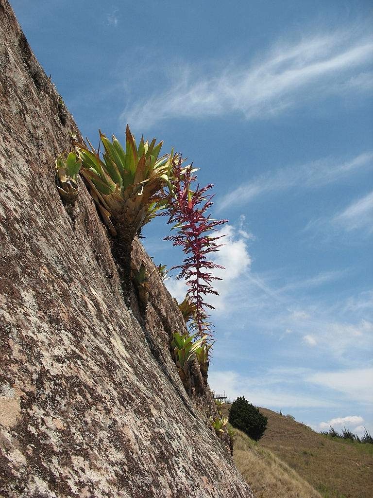 Tillandsia australis in habitat in Bolivia, El Fuerte de Samaipata.